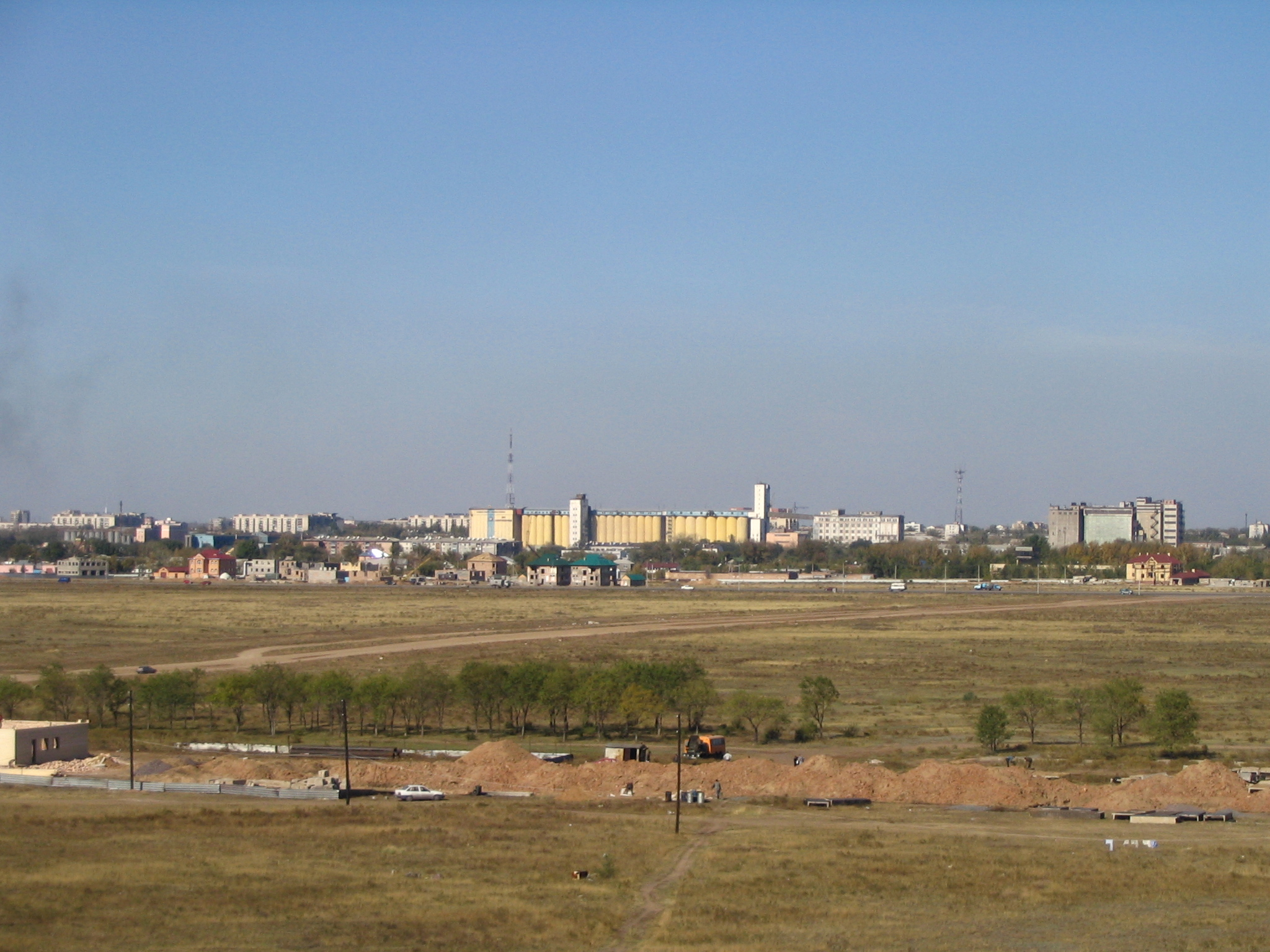 Qaraghandy, Kazakhstan